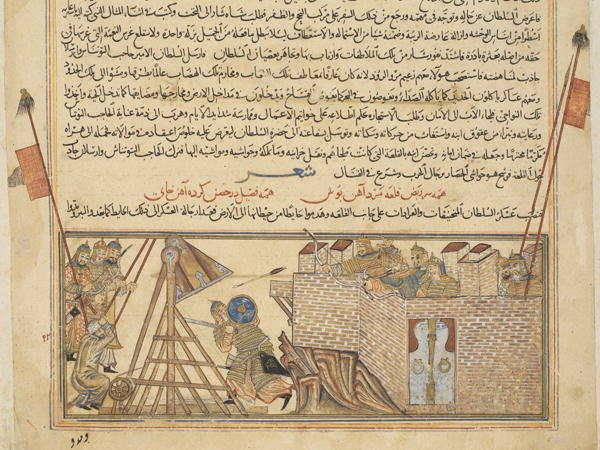 Artwork of the Ghaznavid ruler Mahmud besieging a fortress in Gharcistan, then under the Shir/Shar family.